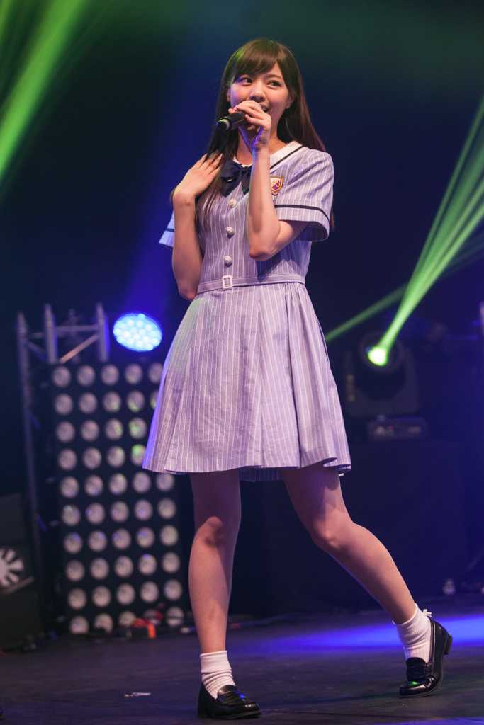 Nogizaka46 live performance at the JAPAN EXPO 2014 in Paris, France. Nanase Nishino, member of the 16 chosen participants.